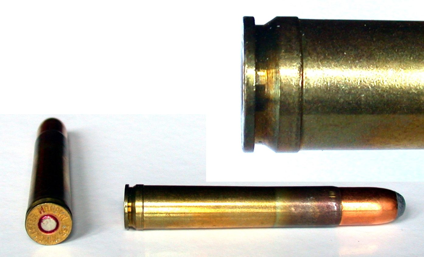 .458 Winchester Magnum cartridge